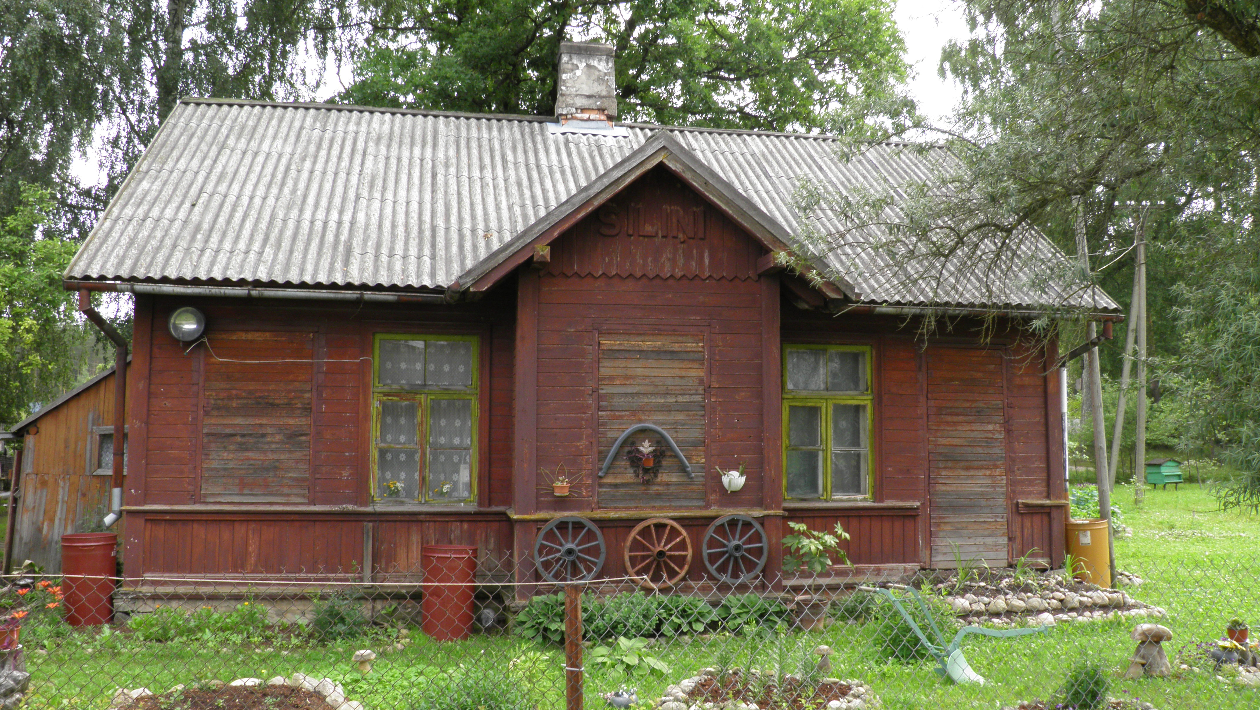 train station